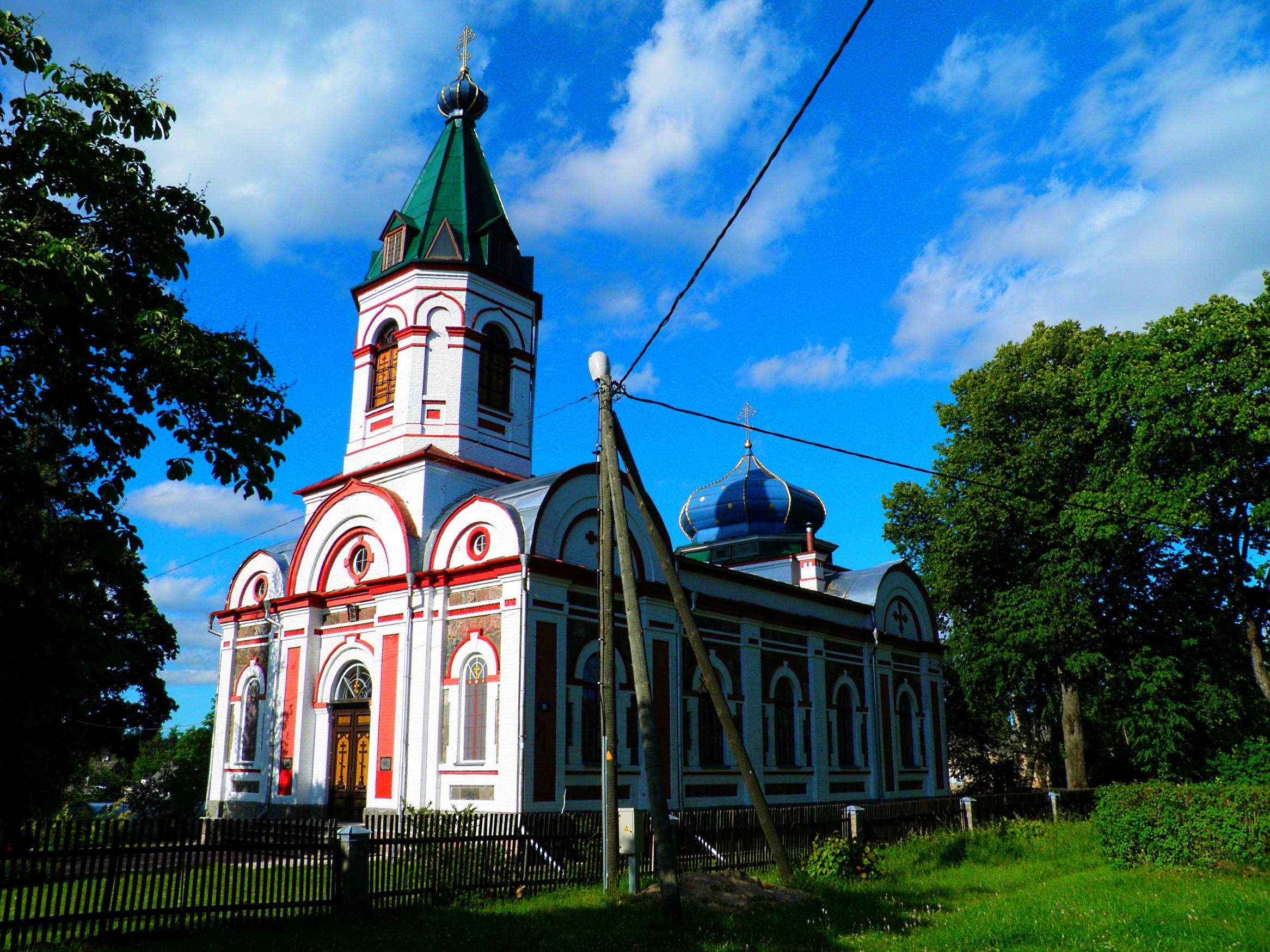 church